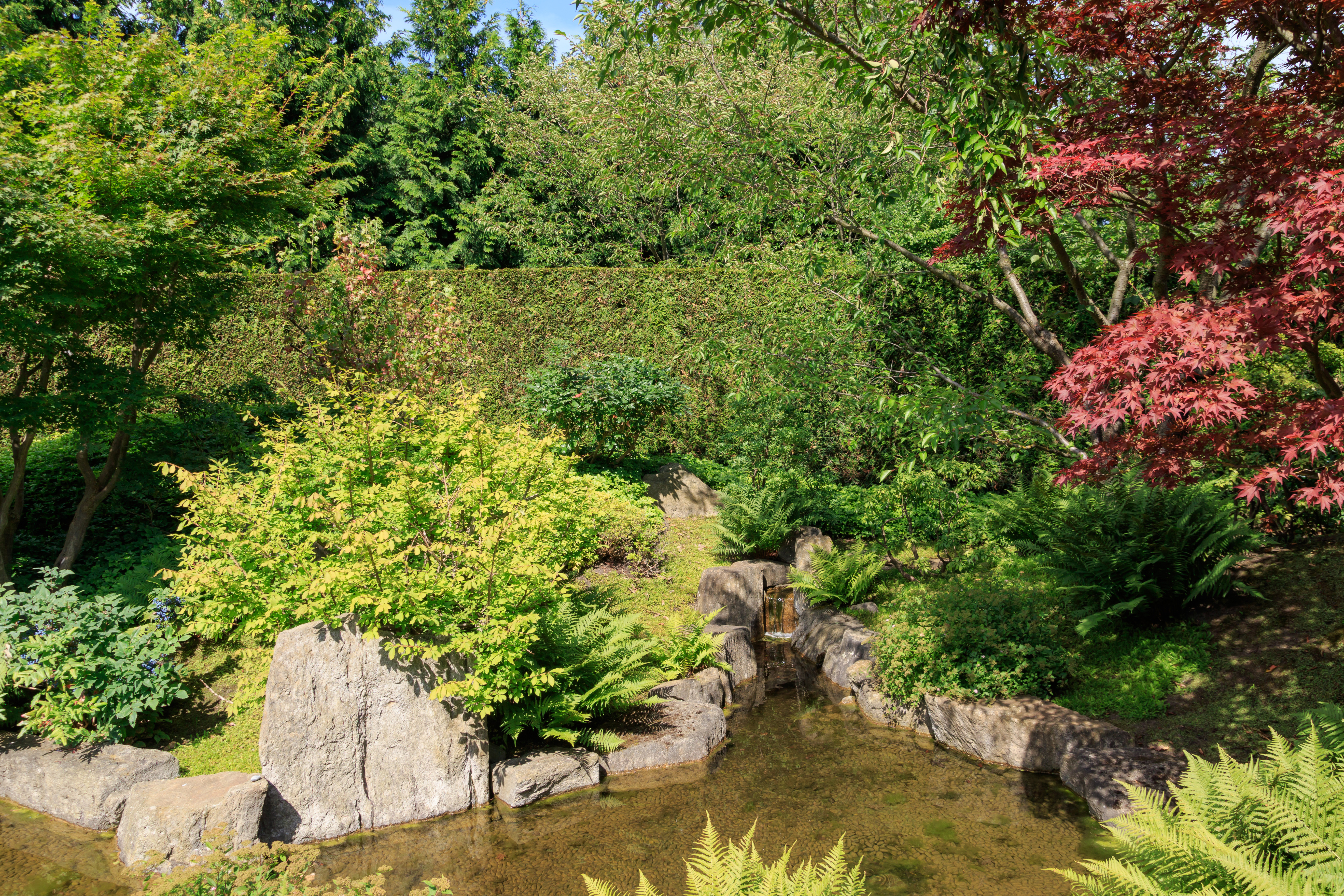 Berlin-Marzahn Gardens of the World: Japanese Garden